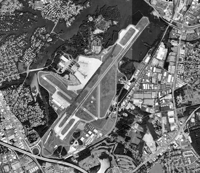 USGS digital orthophoto of Norfolk International Airport in Virginia